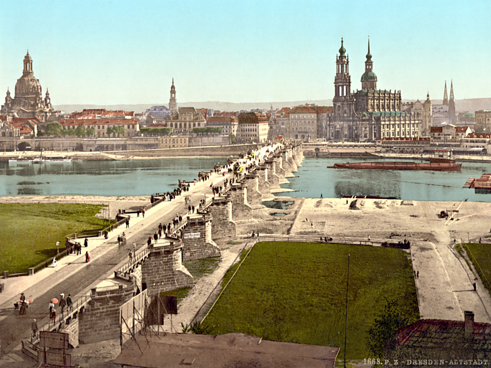 Dresden (Saxony, Germany) - Old Town and Augustusbrücke, seen from the Ministry of War